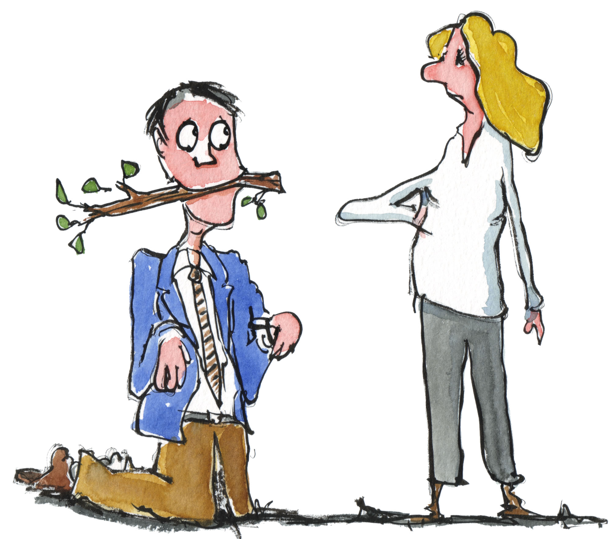 The "pleaser" an illustration of the situation where someone degrades themselves to please or make someone else happy